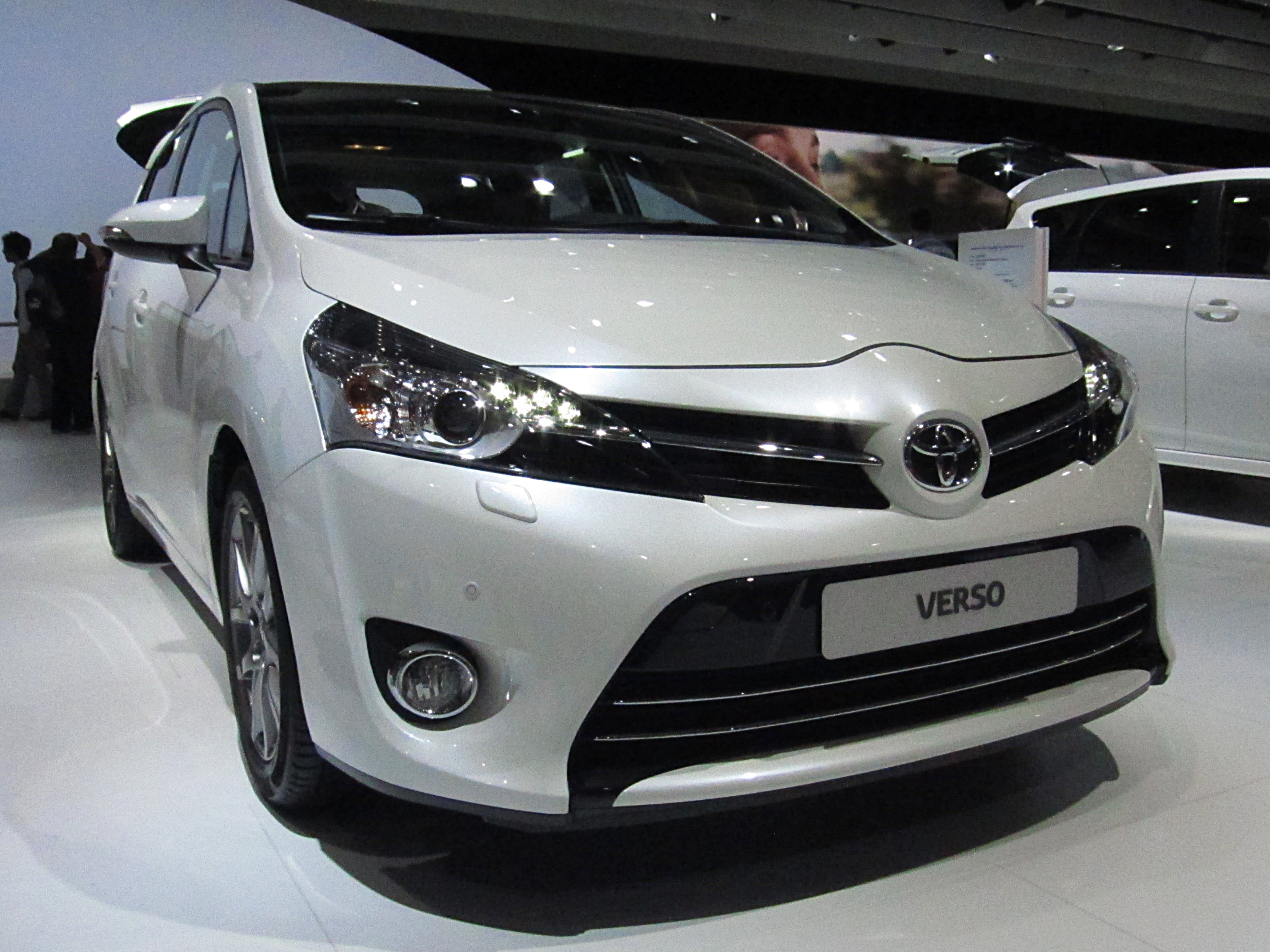 Toyota Verso facelift at Mondial de l'Automobile Paris 2012